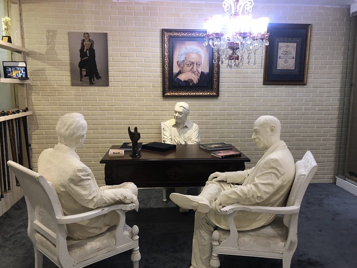 Entezami House